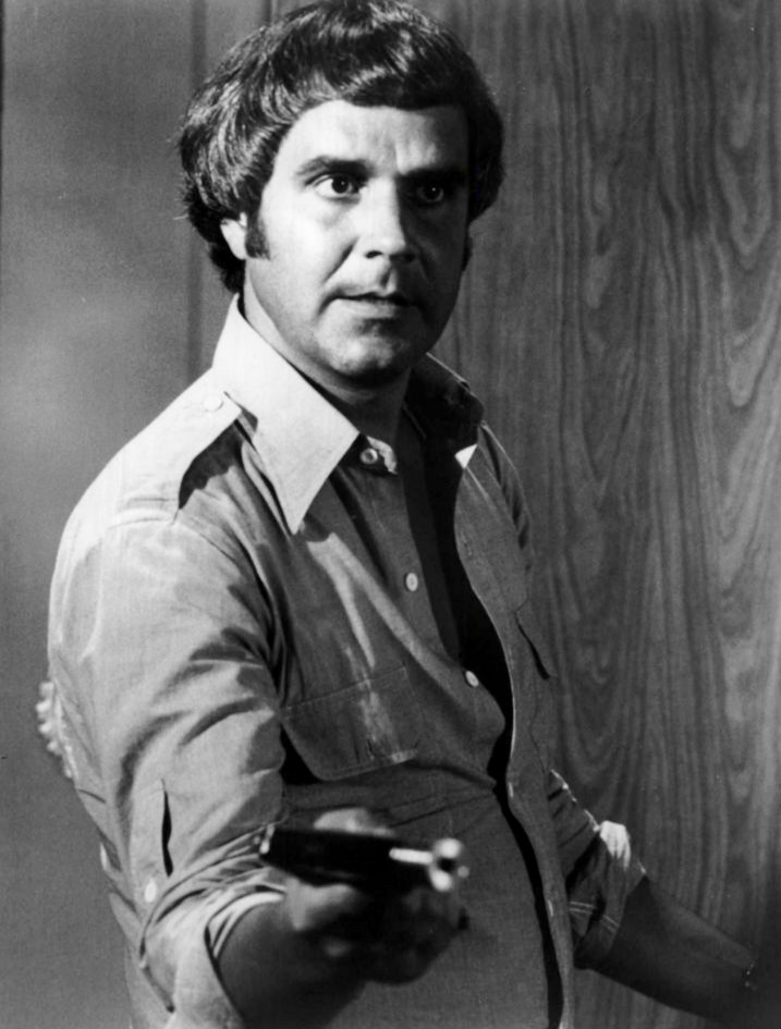 Photo of Rich Little as a guest star on the television program Hawaii Five-O. Little played the role of a killer who imagined himself as various film "tough guys" such as Humphrey Bogart and James Cagney.